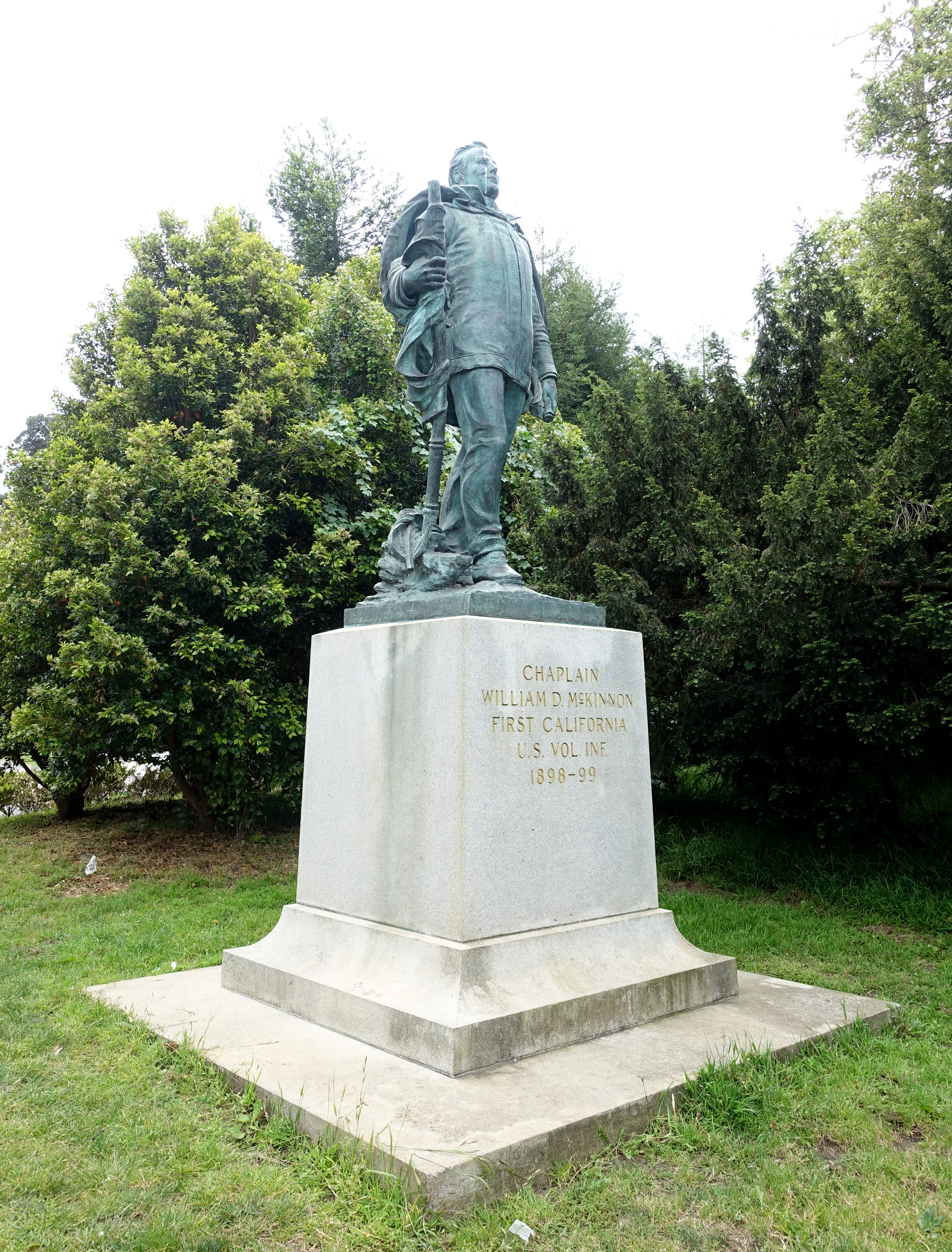 Chaplain William D. McKinnon by John MacQuarrie (1871-1944) - Golden Gate Park, San Francisco, California, USA. This work was created in 1912 and installed in 1927. It is in the public domain because the artist died more than 70 years ago.